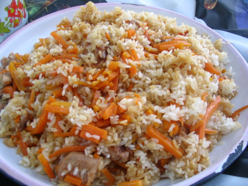 Pilaf with chicken